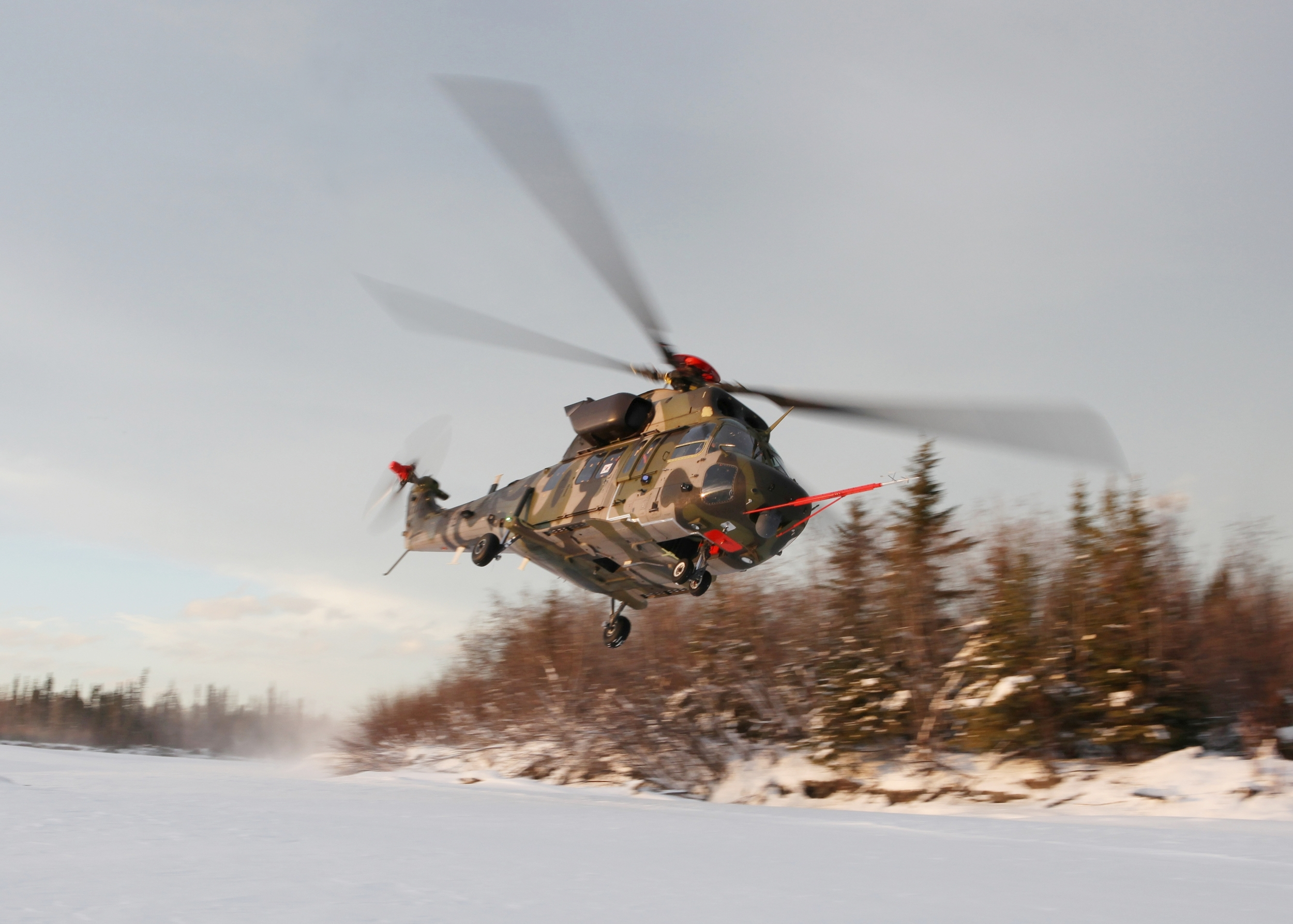 Korean Utility Helicopter Prototype KUH-1 Surion / Low temperature test in Alaska / Photo by KAI (2013) 한국항공우주산업